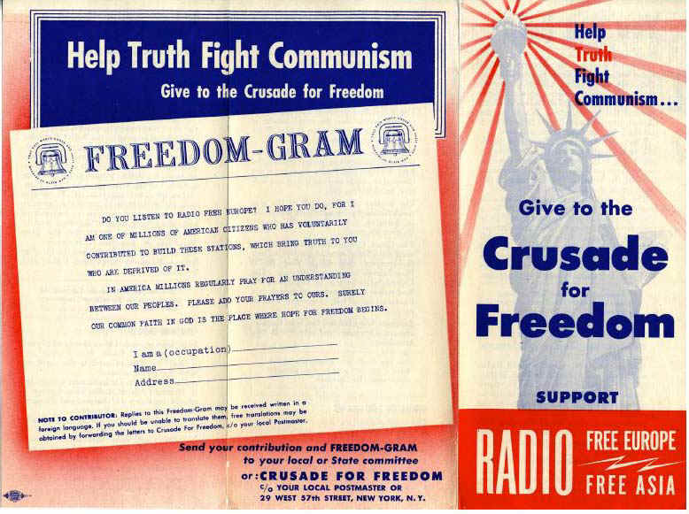 FreedomGram encourages Americans to donate to the Campaign for Freedom, supporting Radio Free Europe.